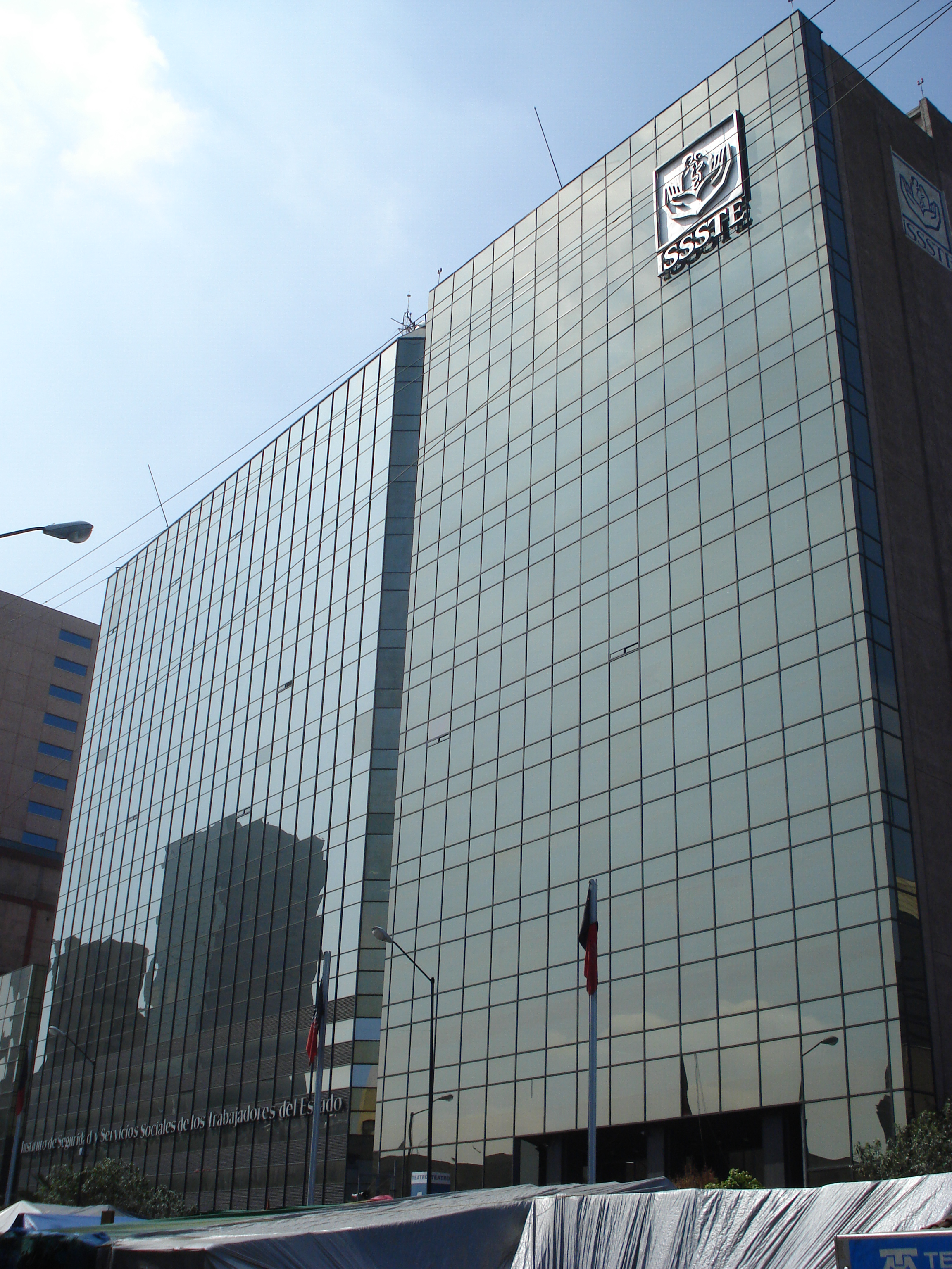 Main office of Instituto de Seguridad y Servicios Sociales de los Trabajadores del Estado in Mexico City